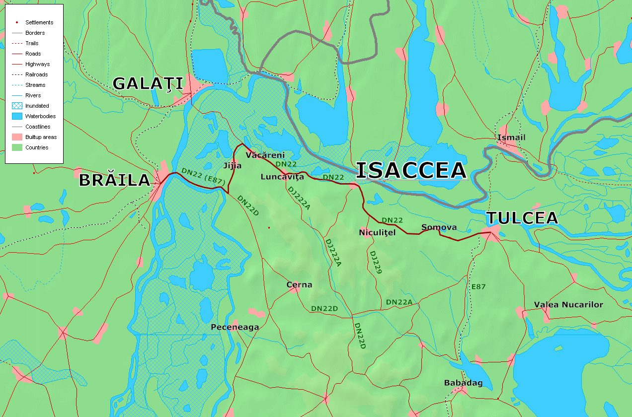 based on PD map at